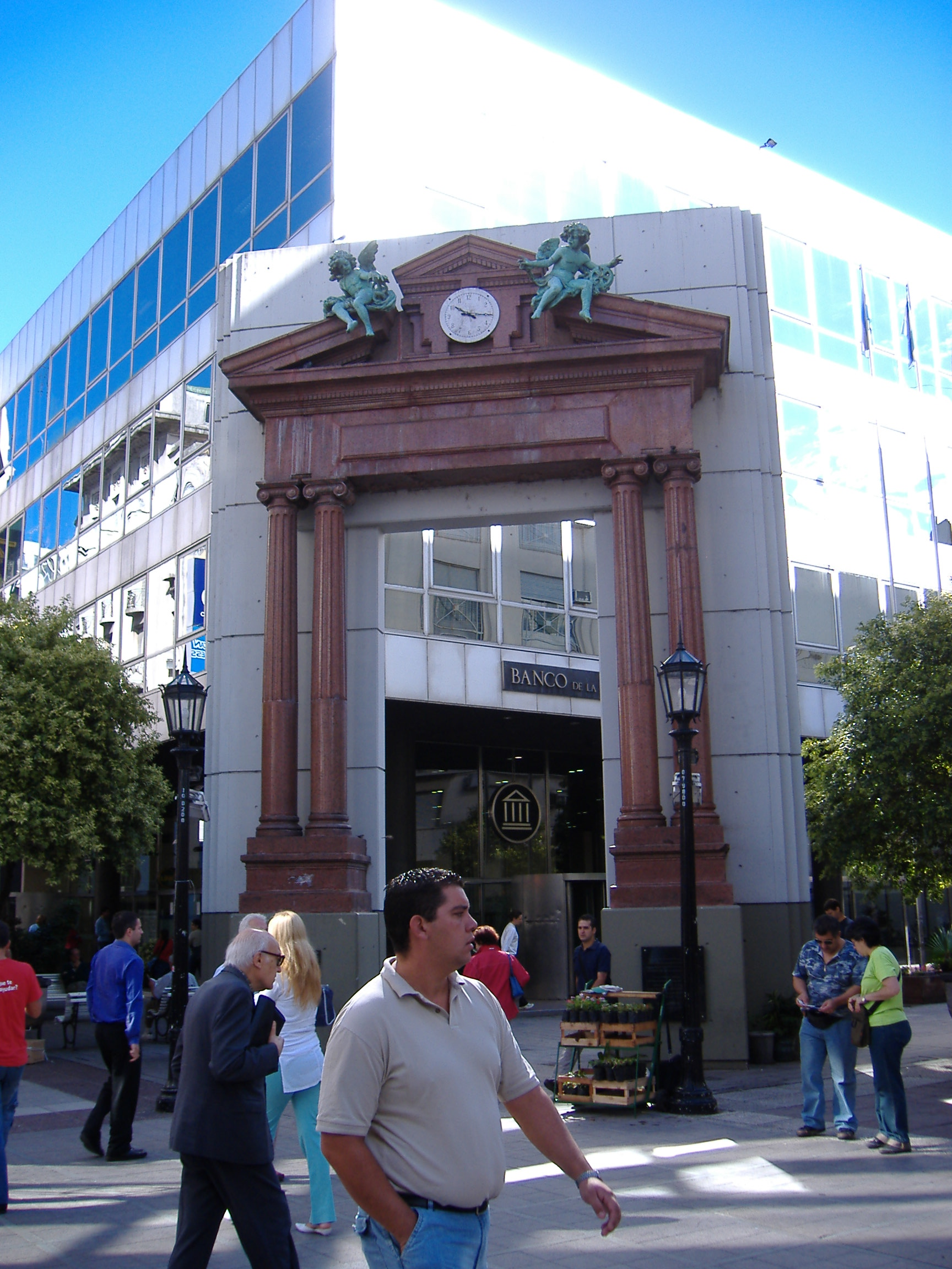 The frontispiece of the old Banco Nación in Rosario, Argentina. The building of this old bank was demolished, but the frontispiece was later restored in its original place, on the intersection of the two pedestrian streets in downtown Rosario (Peatonal Córdoba and Peatonal San Martín). This picture was taken by Pablo D. Flores on 3 March 2006.